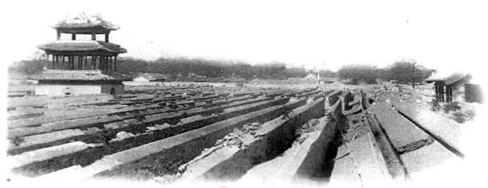 Image from La Chine à terre et en ballon.